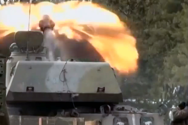 Ukrainian self-propelled artillery in Donbass.